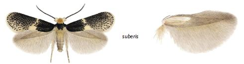 Ectoedemia suberis male and male hindwing